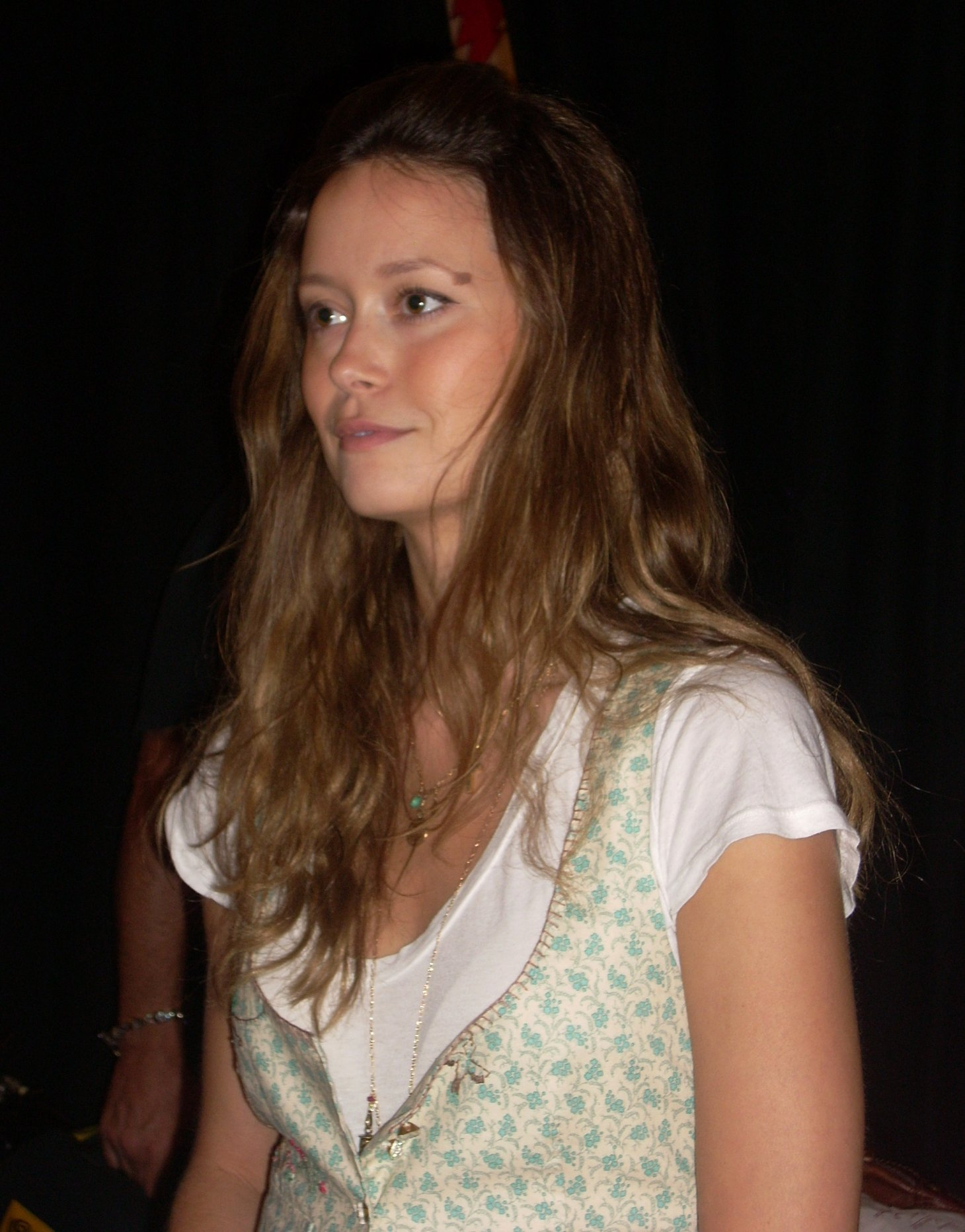 American actress Summer Glau at the Meet the Cast of "Terminator: The Sarah Connor Chronicles" Signing and Screening Event, Golden Apple Comics on Melrose - Sat., Sept. 13, 2008